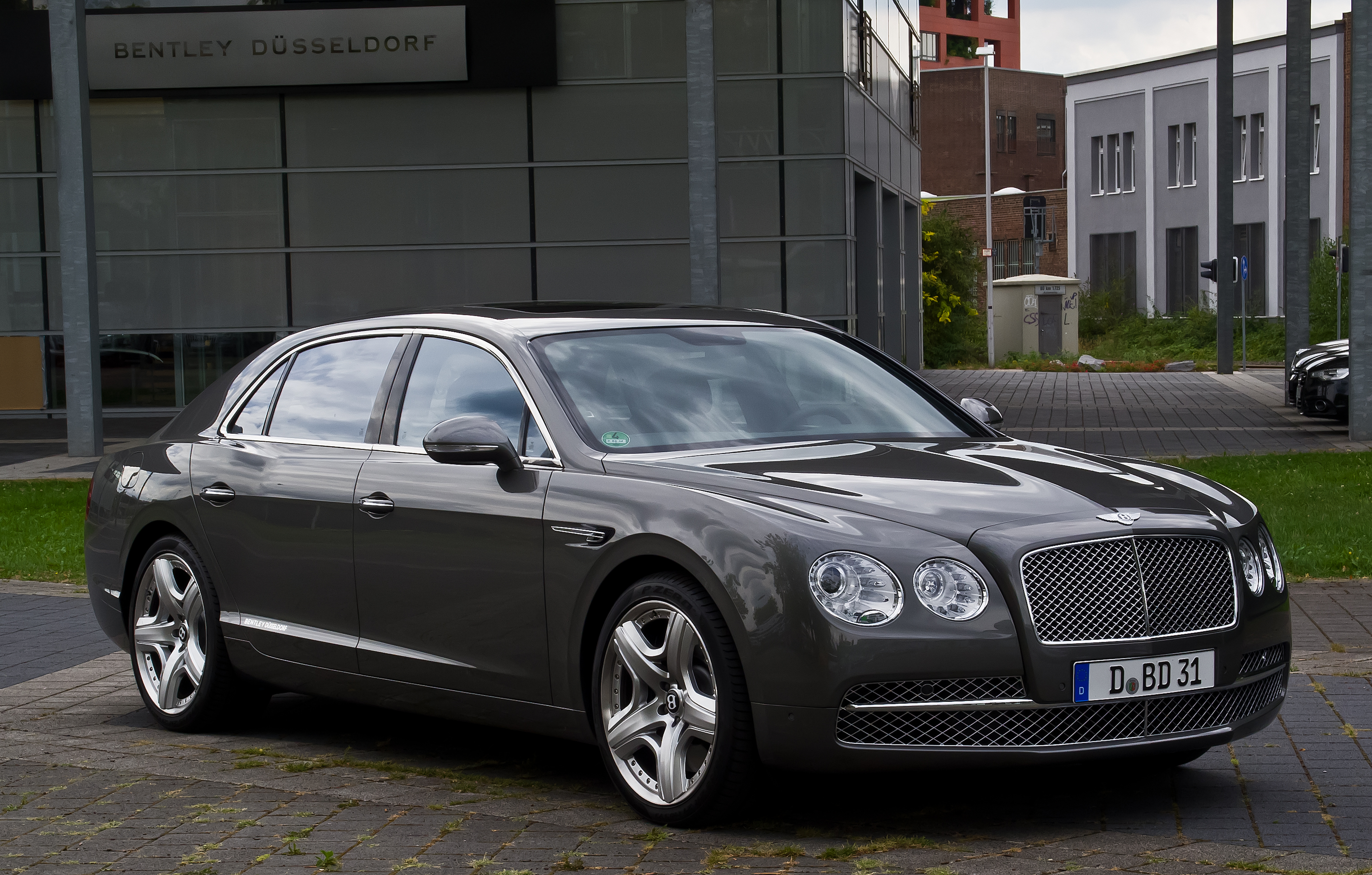 Bentley Flying Spur